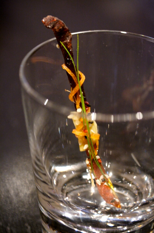 TIME 9:16 TUNA candied and dried A single stick of tuna jerky flavored with soy sauce, fish sauce, and rice wine, topped with black and white sesame seeds, fresh ginger, lemongrass, and candied grapefruit peel. Sue Wen: I have a sufficiently strong aversion to ginger that I chose to pass on that part, but the rest was pretty good, if not remarkable. The grapefruit peel left my tongue slightly tingly afterward. Kevin: Nice. Matt: Nice, if not much different than Chinese-style jerky I've had. Elisa: Only okay.